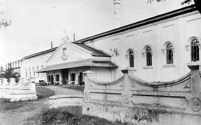 "Large, modern" Krebet Sugar factory, Malang.